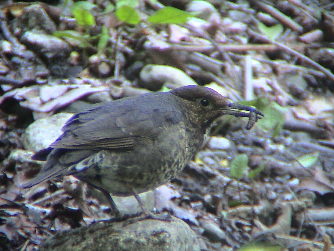 Long-billed Thrush Zoothera monticola in Western Uttarakhand, India.